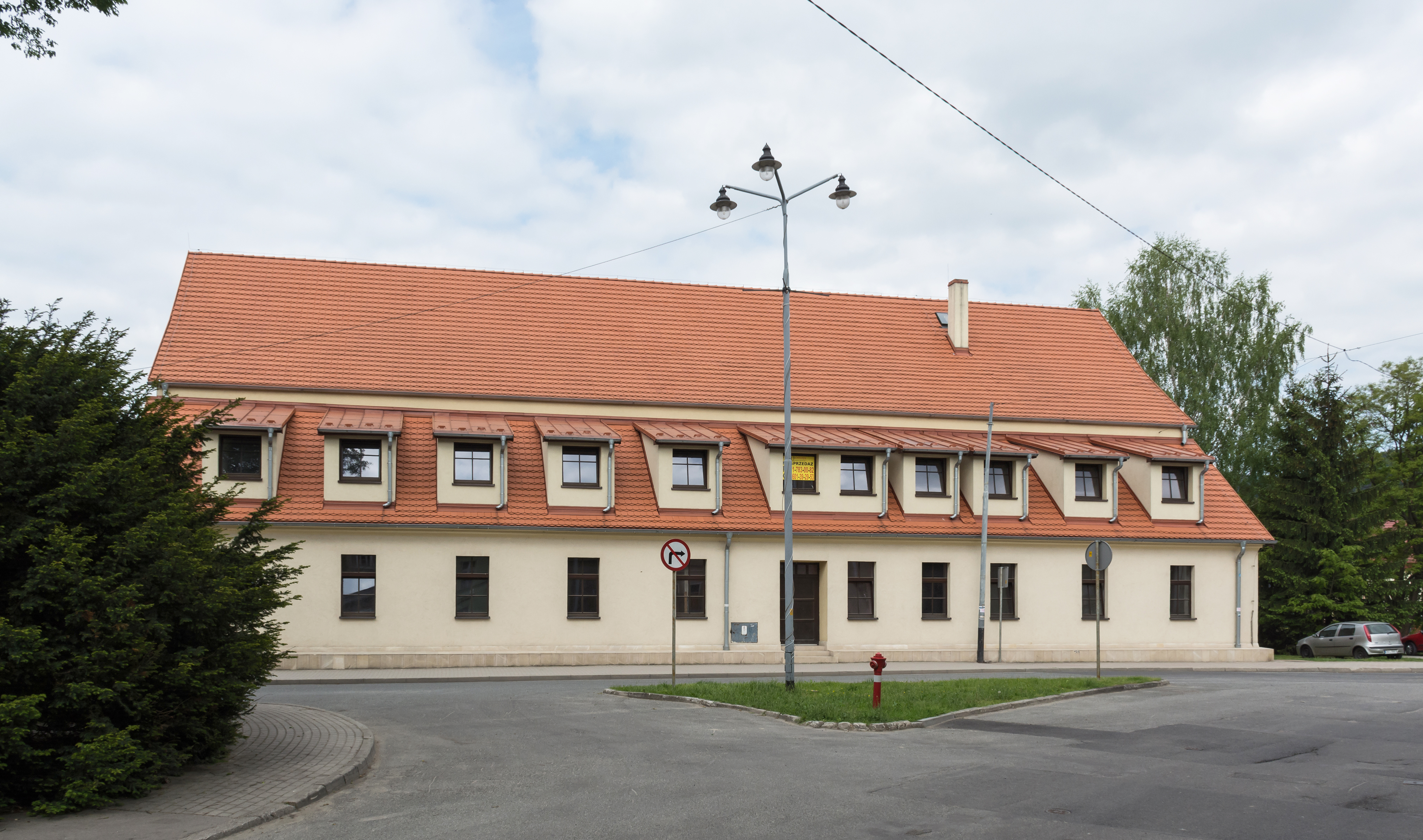 41 Słodowa Street in Lądek-Zdrój